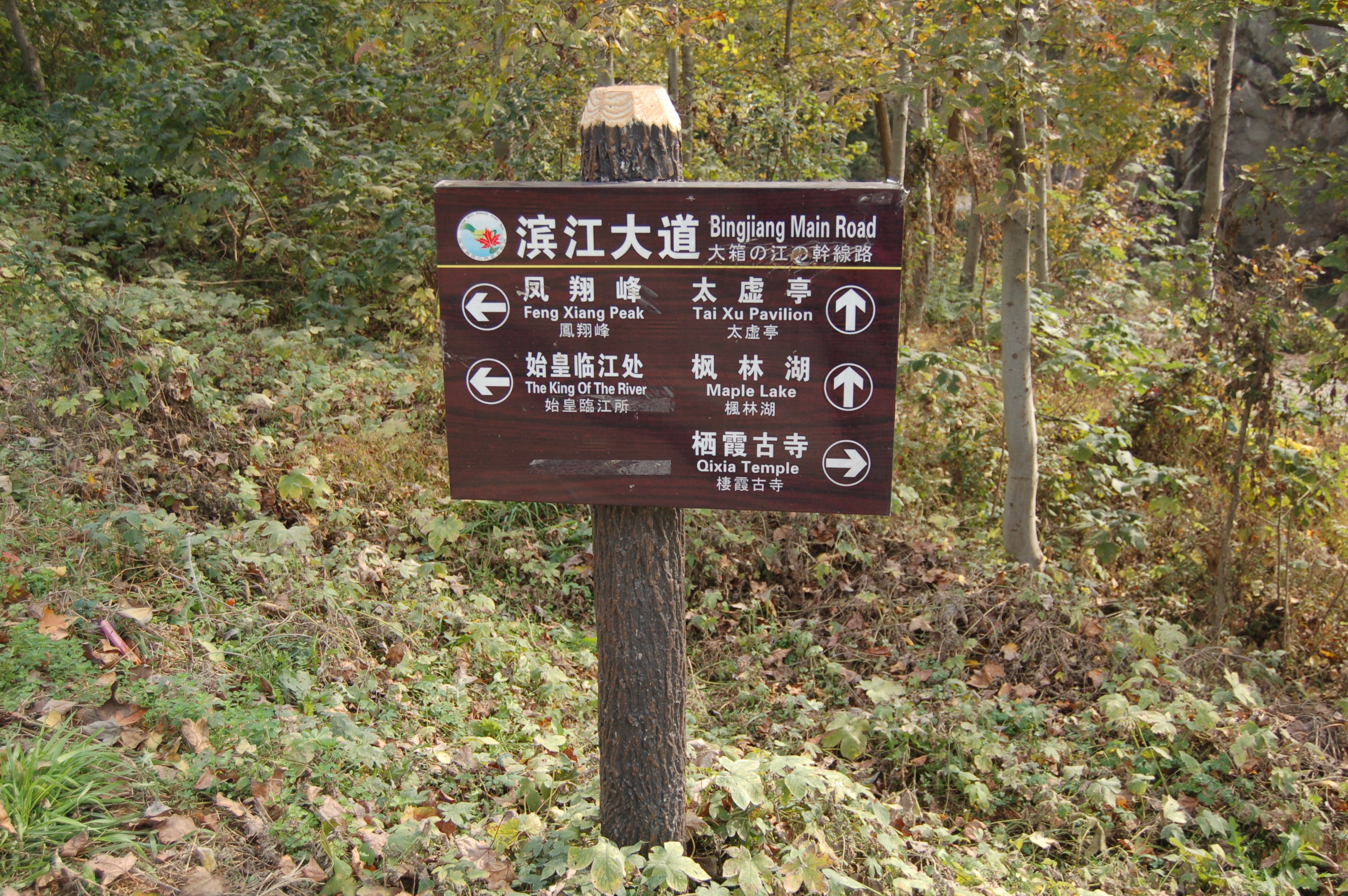 signal of QiXia